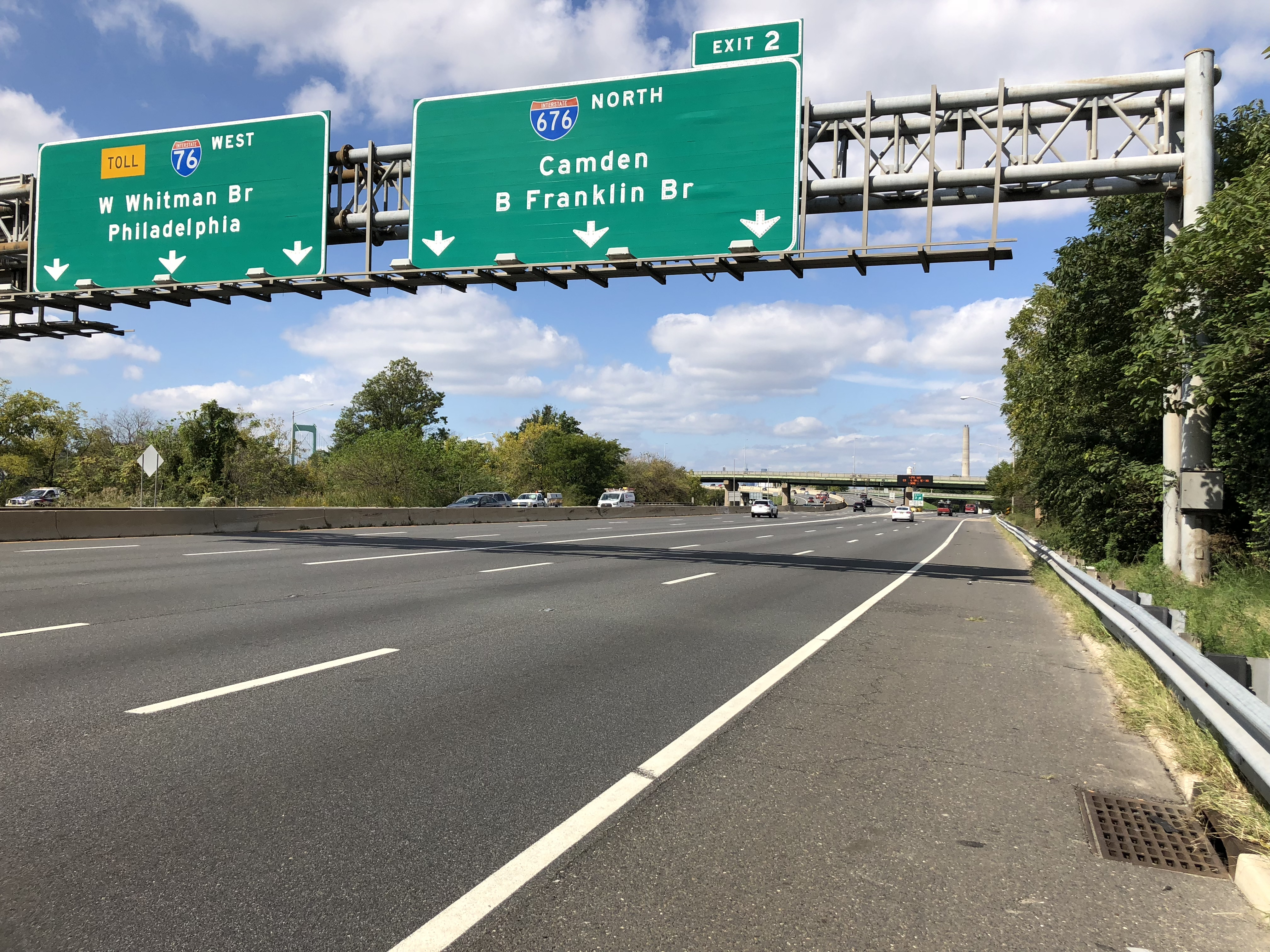 View west along Interstate 76 (North-South Freeway) at Exit 2 (Interstate 676 NORTH, Camden, Benjamin Franklin Bridge) in Gloucester City, Camden County, New Jersey